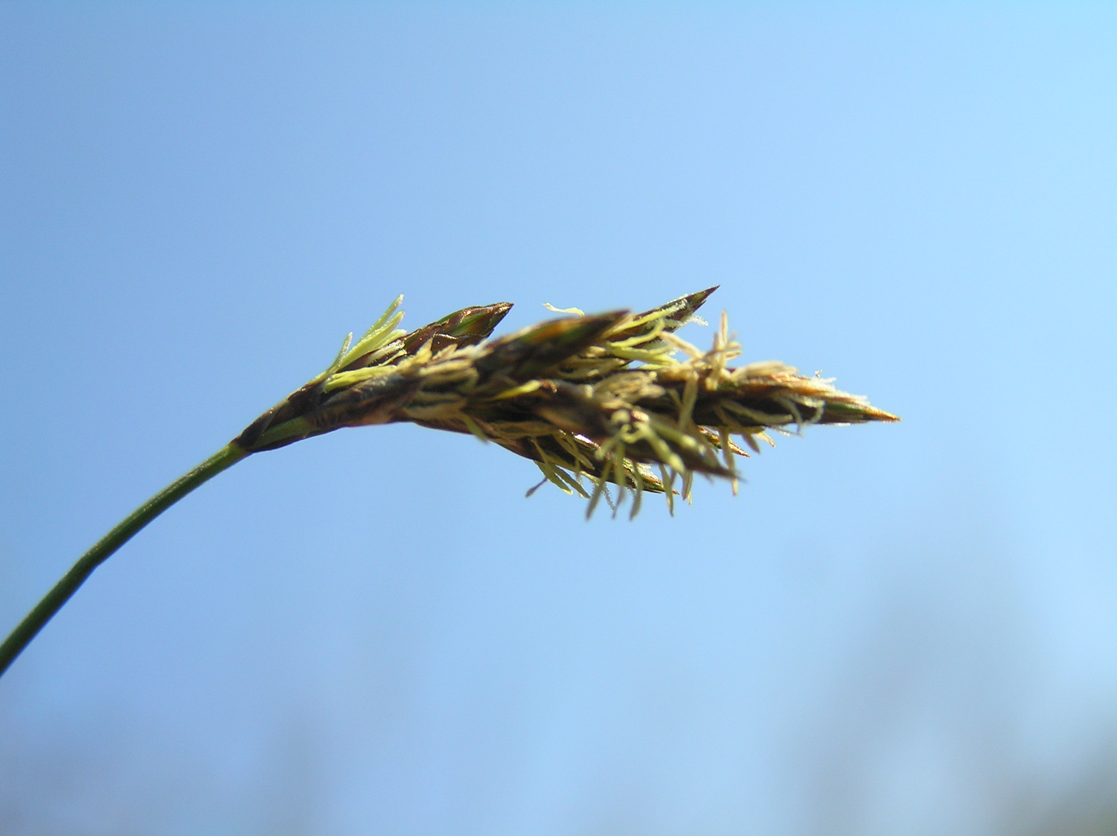 Carex praecox, Sedlec near Mikulov, Southern Moravia, Czech Republic